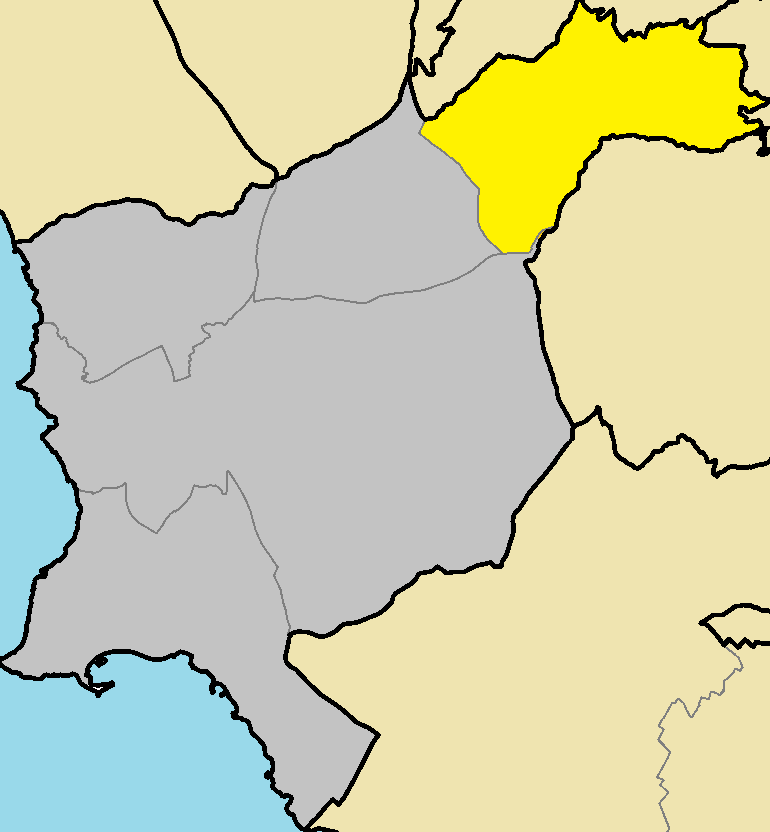 Anavargos in Paphos Municipality.